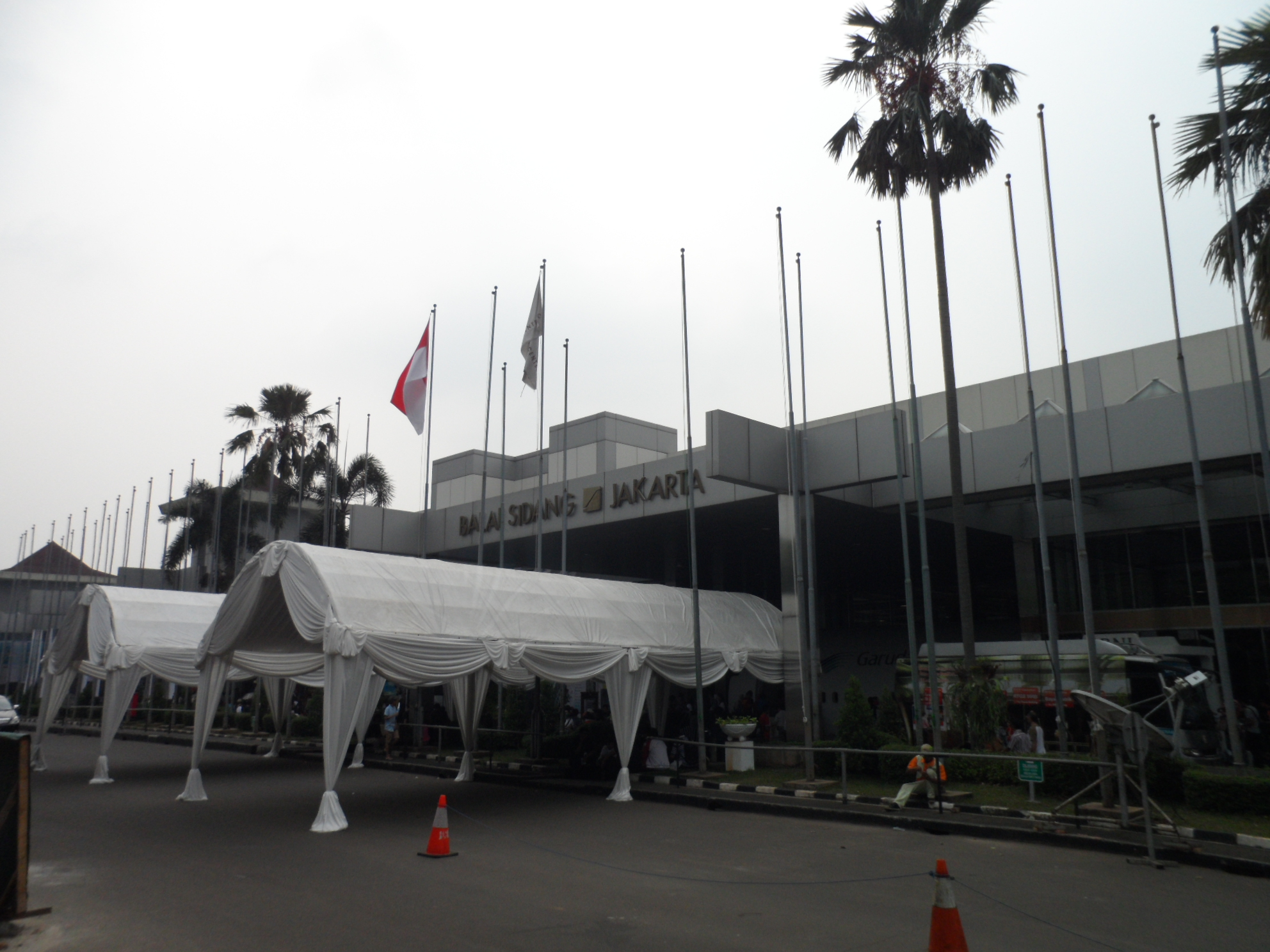 Jakarta Convention Center, Tanah Abang, Central Jakarta, IndonesiaBahasa Indonesia: Balai Sidang Jakarta, Tanah Abang, Jakarta Pusat, Indonesia